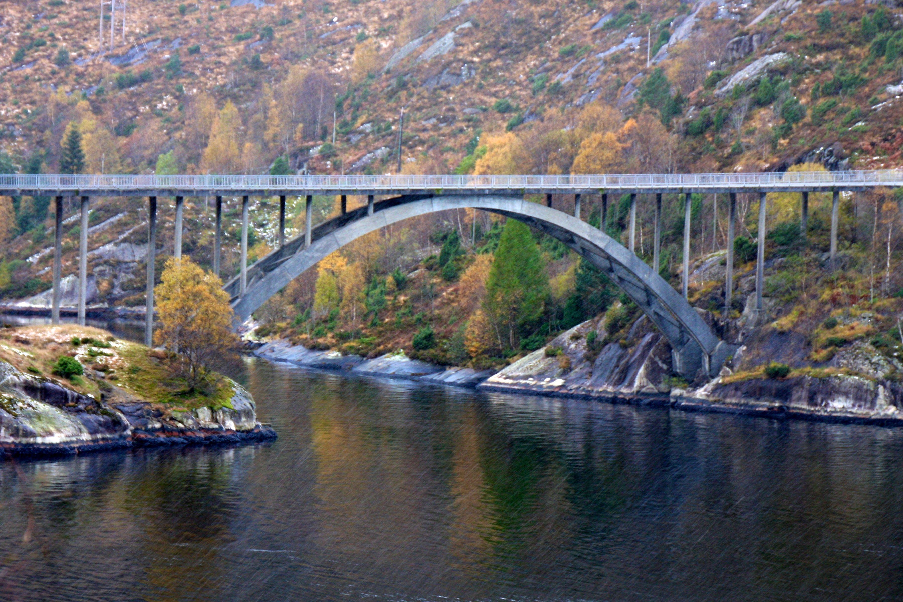 Gulen municipality, Norway.